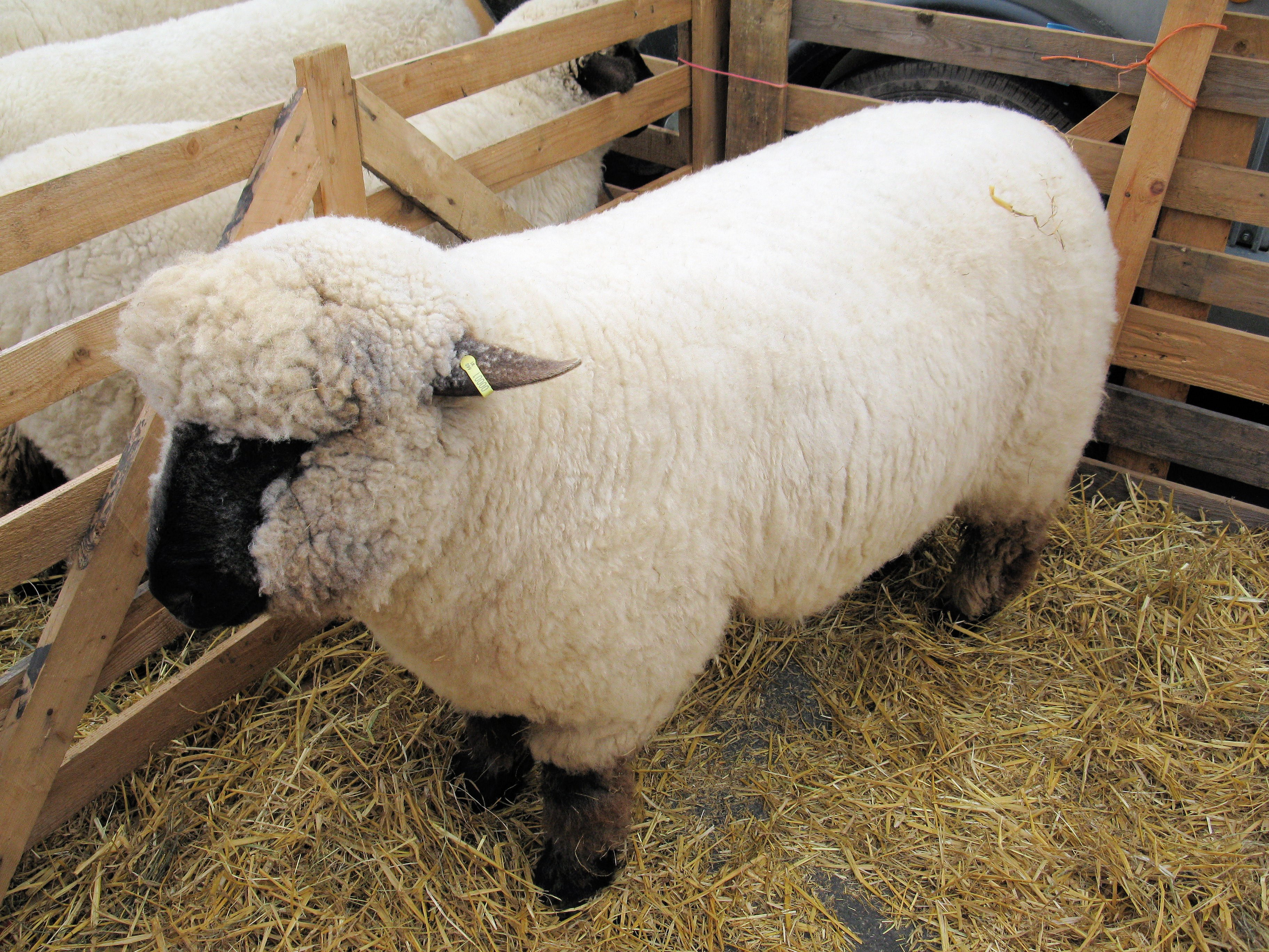 Oxford Down at Masham Sheep Fair